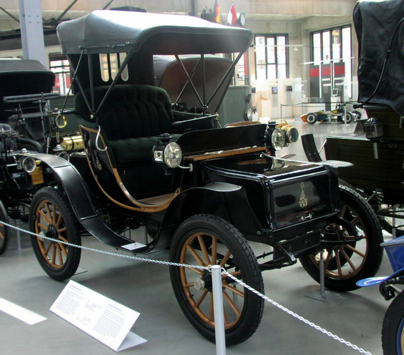 Baker Electric (1908)